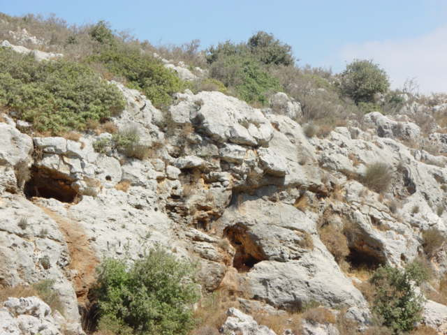 Bterram Keoue river bed side (Middle Paleolithic site of Lebanon)